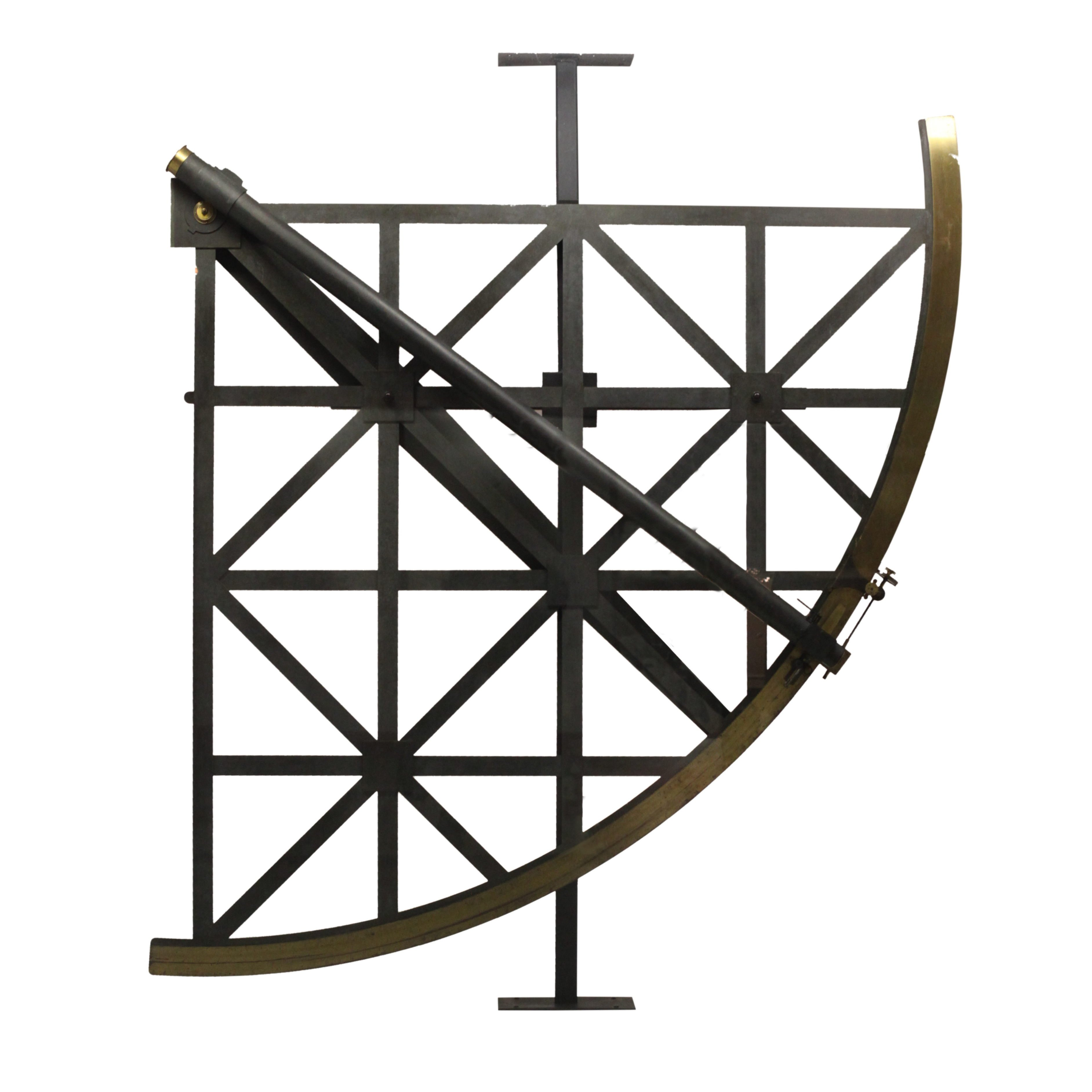 Quarter of a circle, by Jonathan Sisson. Brass, 1742. Classified as a Historic Monument. Lent by University Claude-Bernard Lyon 1 (Observatoire astronomique de Saint-Genis-Laval). Used by Jérôme de Lalande to measure the distance between the earth and the moon in 1751. On display at Lyon.